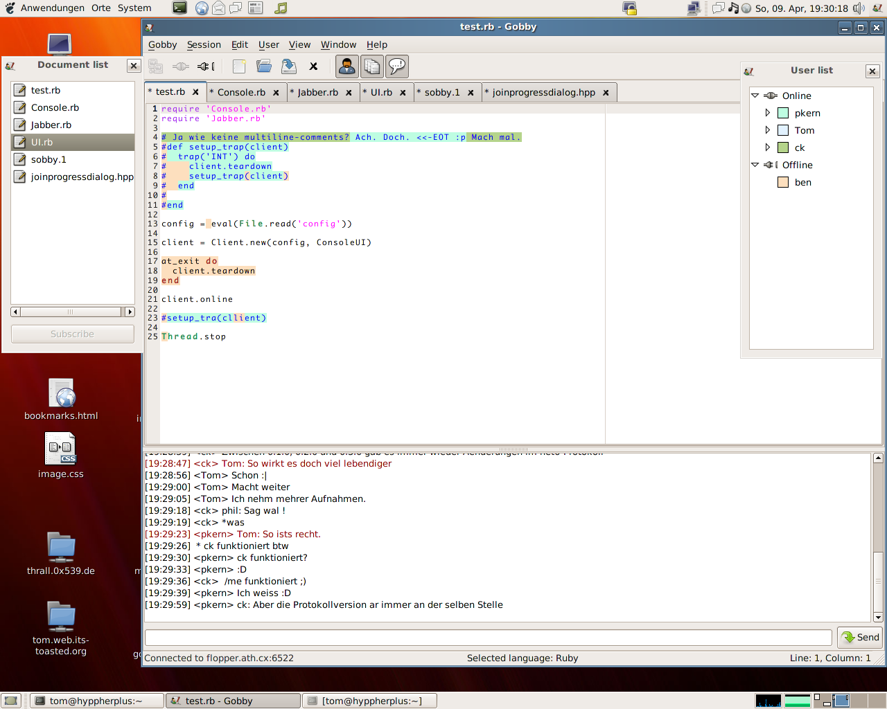 A Gobby 0.4.0 (development version) screenshot, taken by me.